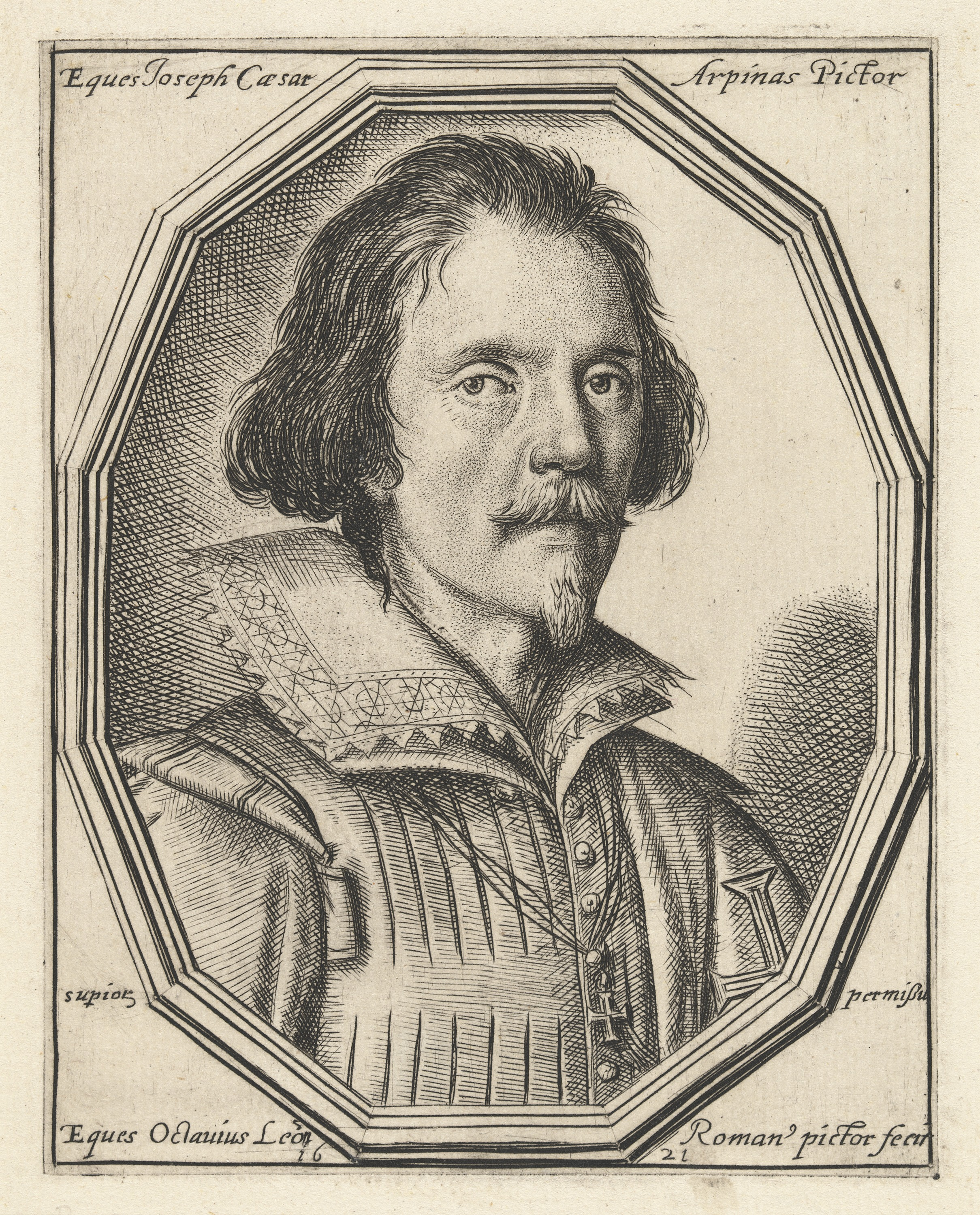 Depicted person: Giuseppe Cesari